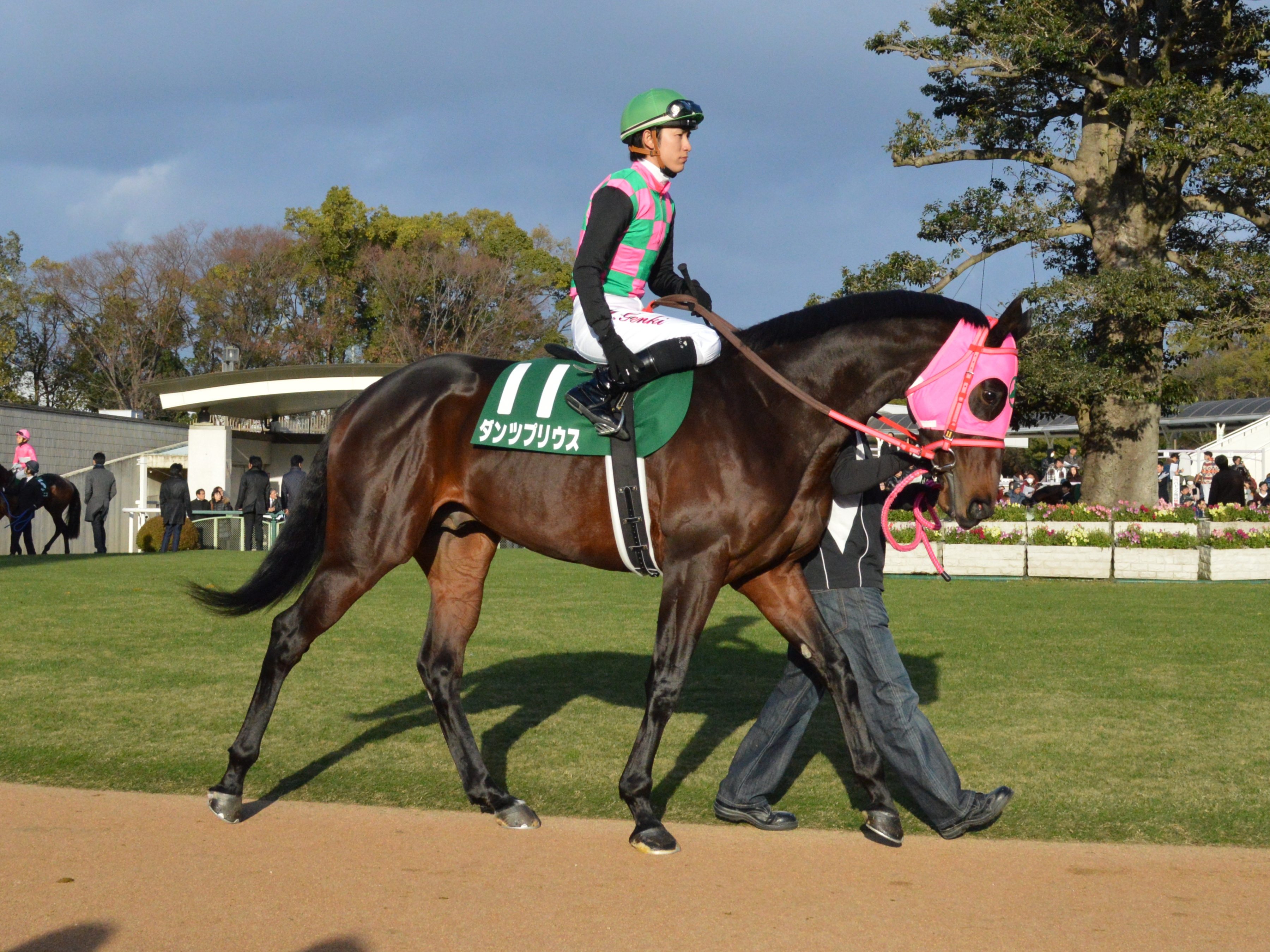 Japanese race horse Dantsu Prius at Kyoto racecourse.